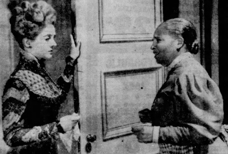 Bette Davis and Jessie Grayson in a scene from the 1941 film The Little Foxes, as published in the New York Daily News